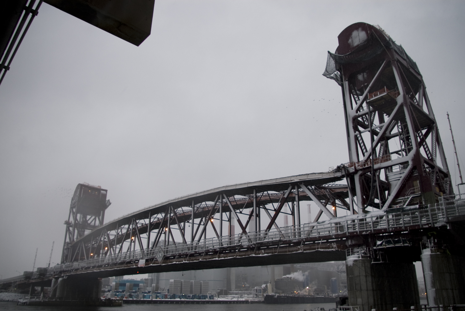 Roosevelt Island Bridge seen from below